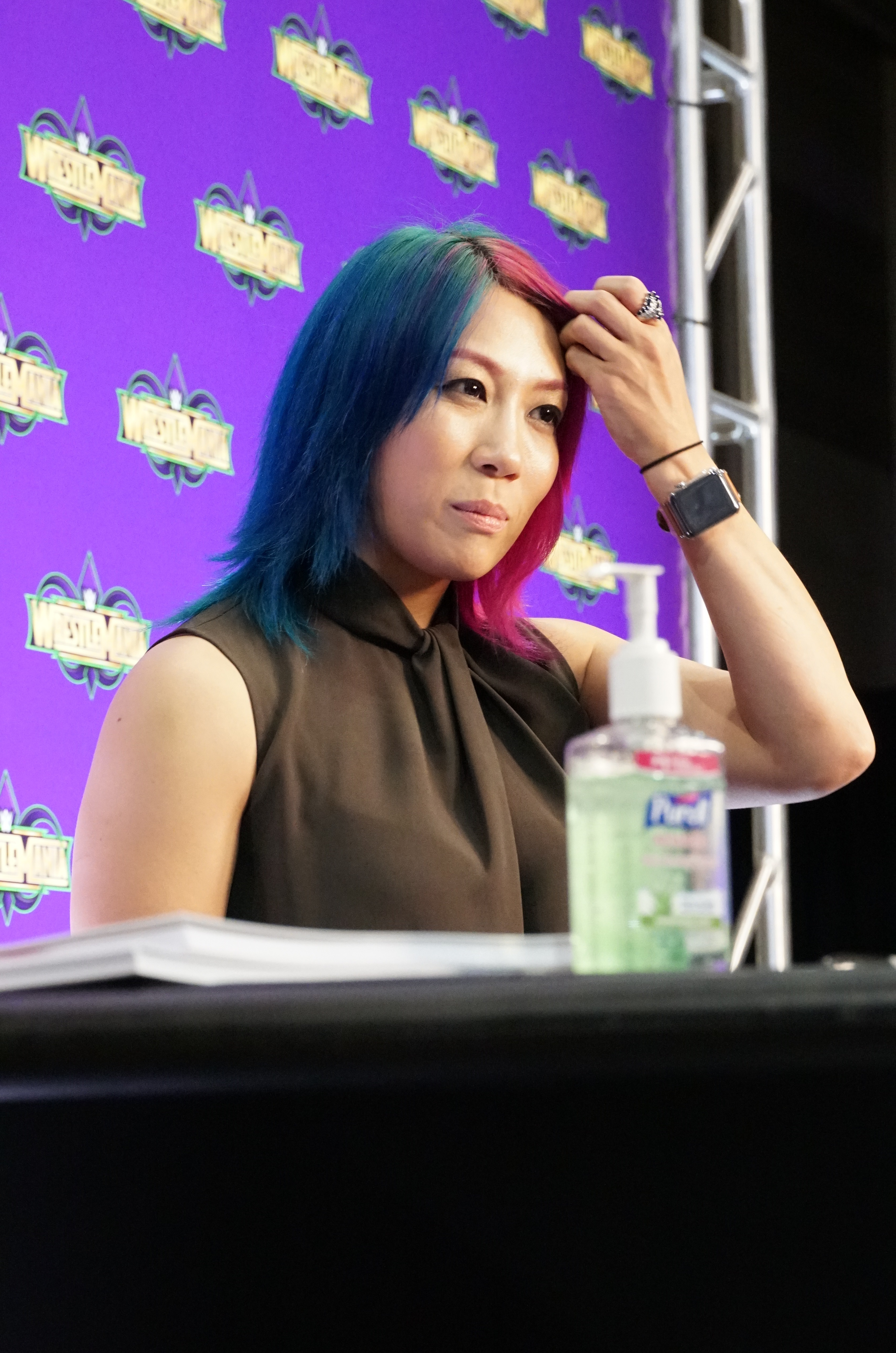 Asuka at WrestleMania 34 Axxess on April 7, 2018.